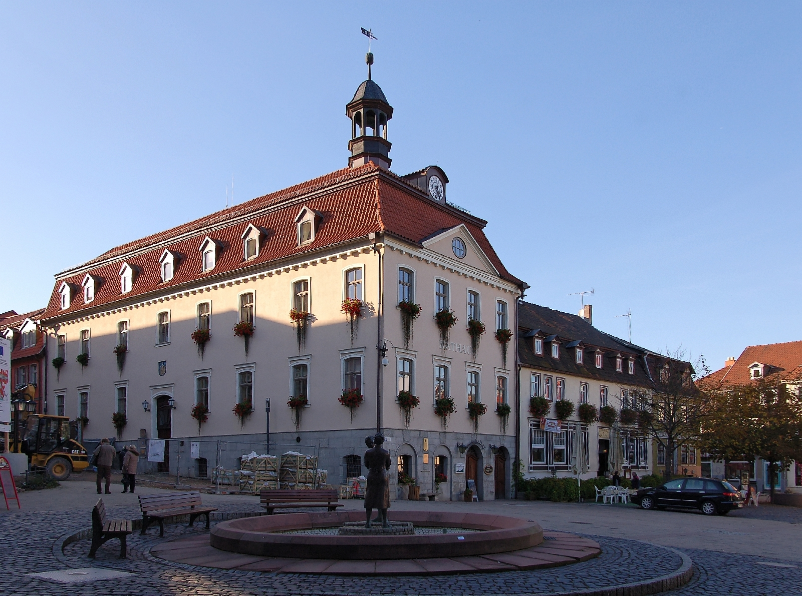 Bad Salzungen 2011